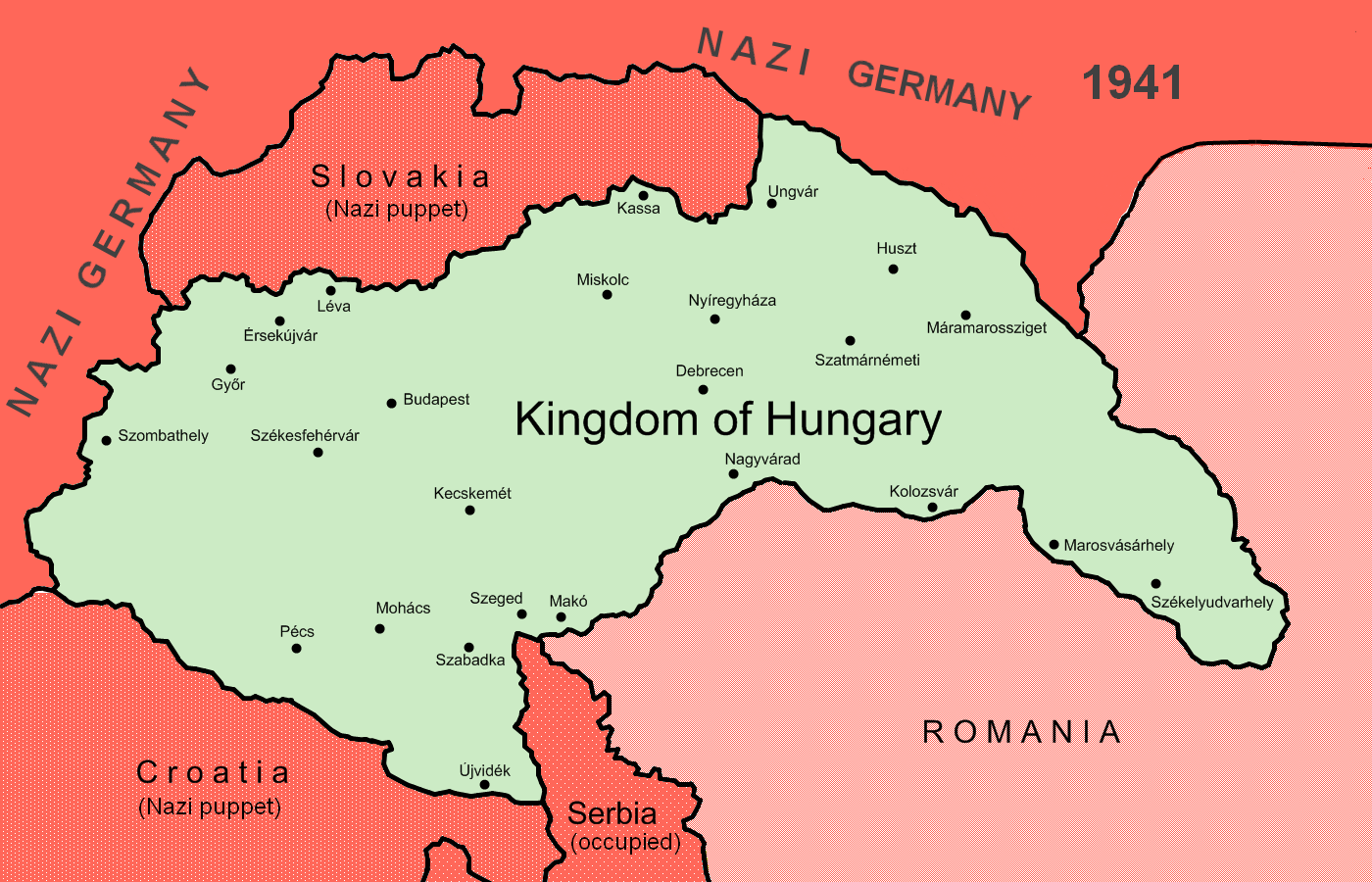 Kingdom of Hungary and bordering countries in 1941